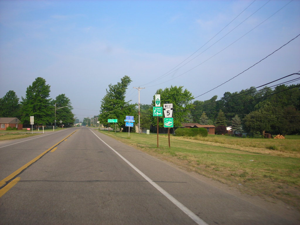 Westbound on Pennsylvania Route 5, part of the Great Lakes Seaway Trail and the Lake Erie Circle Tour, as shown here.